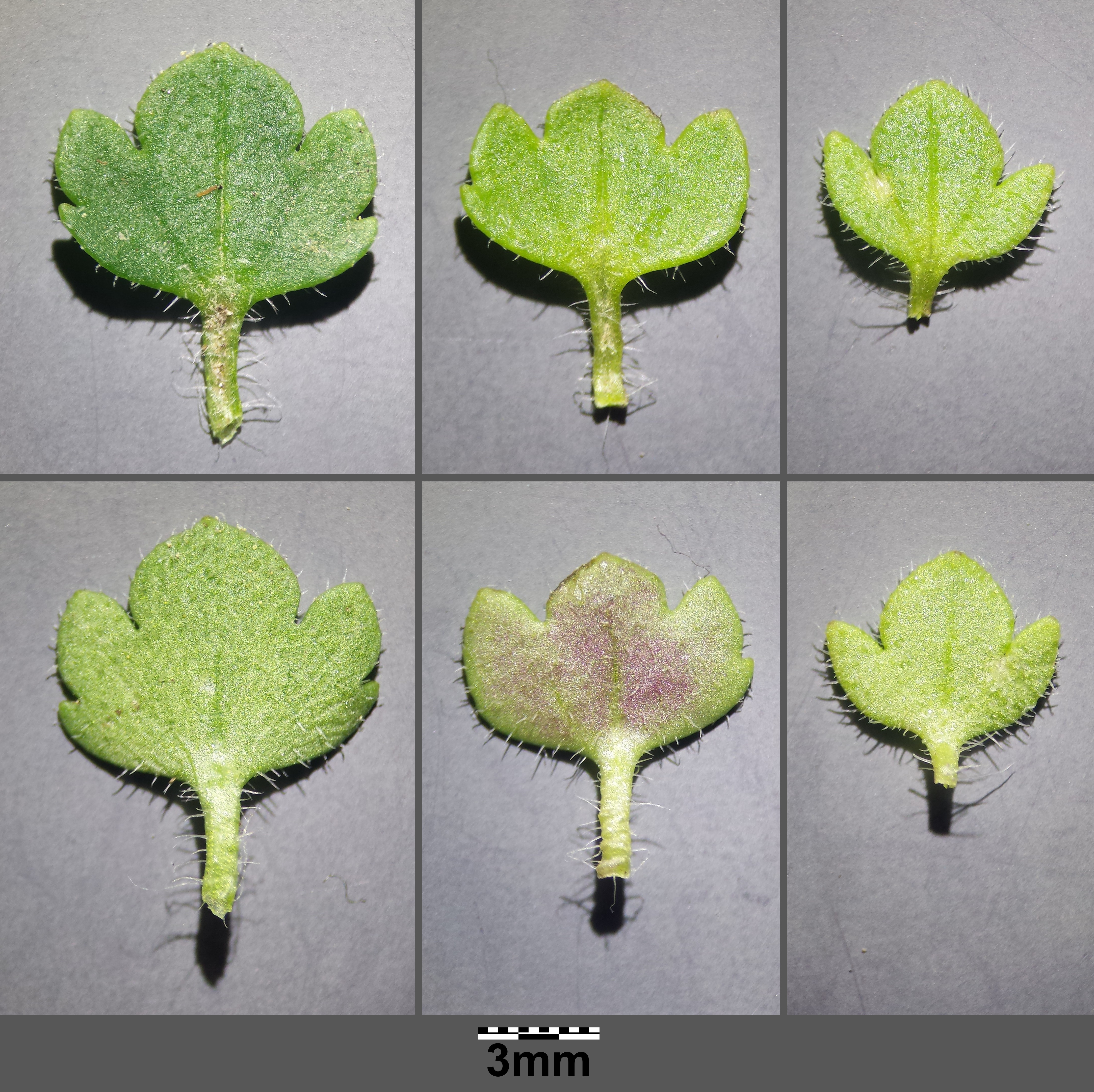 Bracts Above: top sides, below: bottom sides Taxonym: Veronica triloba ss Fischer et al. EfÖLS 2008 ISBN 978-3-85474-187-9 Location: Alte Schanzen, object XII, Floridsdorf, Vienna - ca. 225 m a.s.l. Habitat: semi-dry grassland